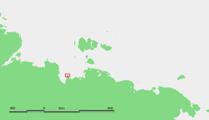 location map